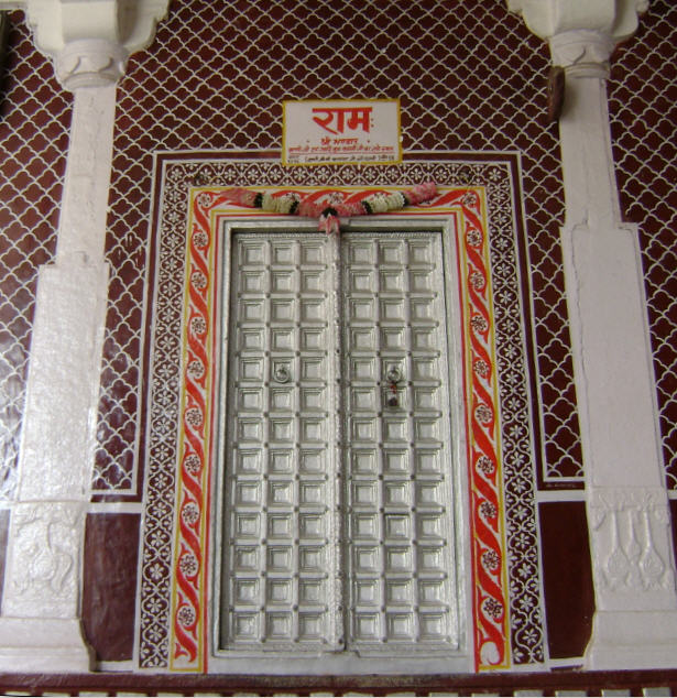 This is a Gate of the room where original speech (Hindi : Anubhav Vaani) is placed.This door opens once in a yaer.